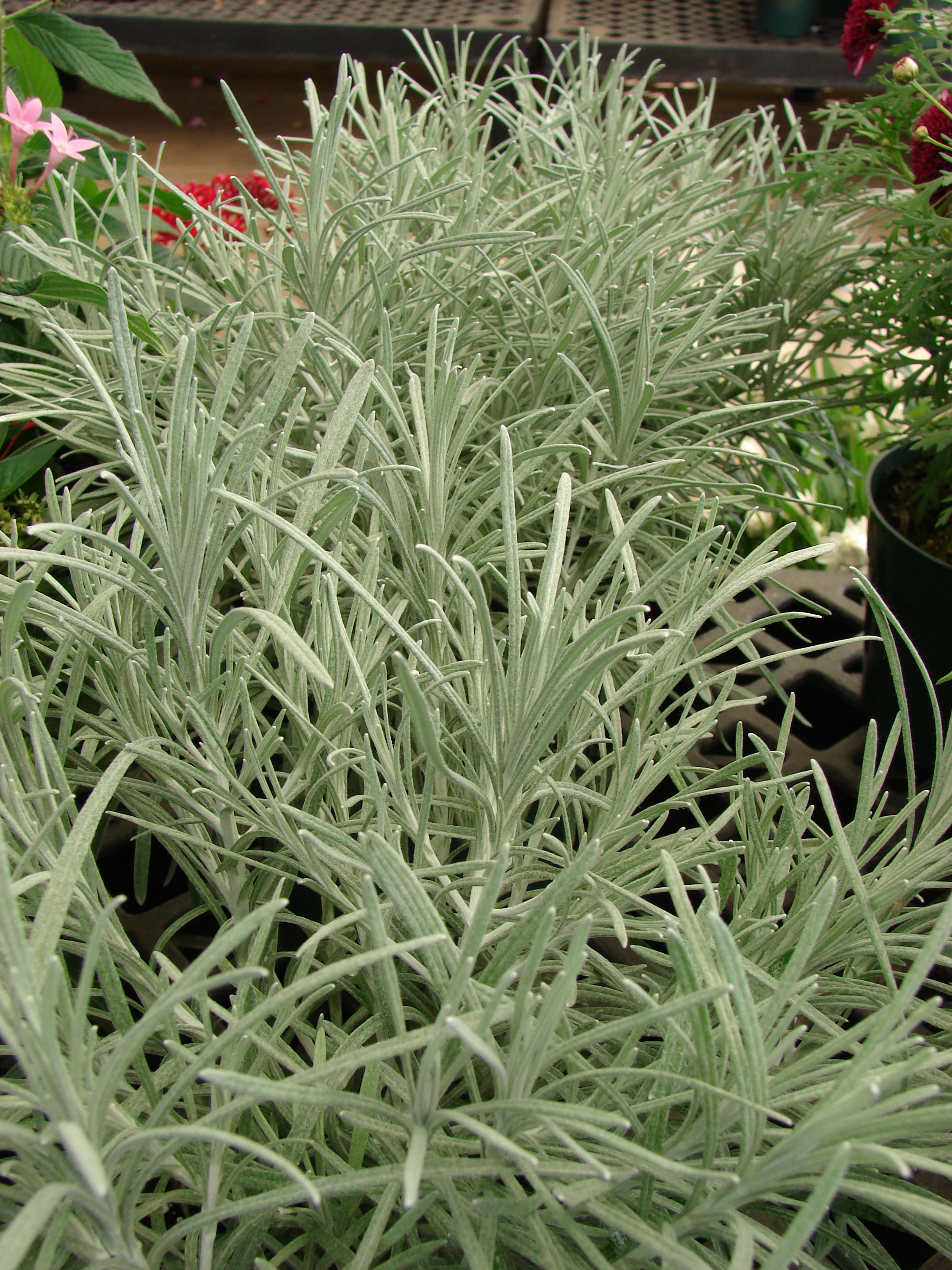 Helichrysum thianschanicum (Icicle habit). Location: Maui, Walmart Kahului